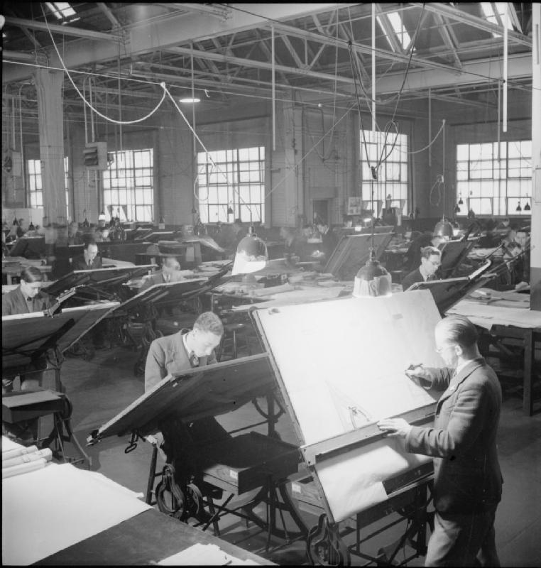 Birth of a Bomber- Aircraft Production in Britain, 1942 A wide view of the Drawing Office at the Handley Page factory at Cricklewood, showing rows of people at work at their drawing boards to translate the initial design of the Halifax into plans and blue prints for each of the individual parts.